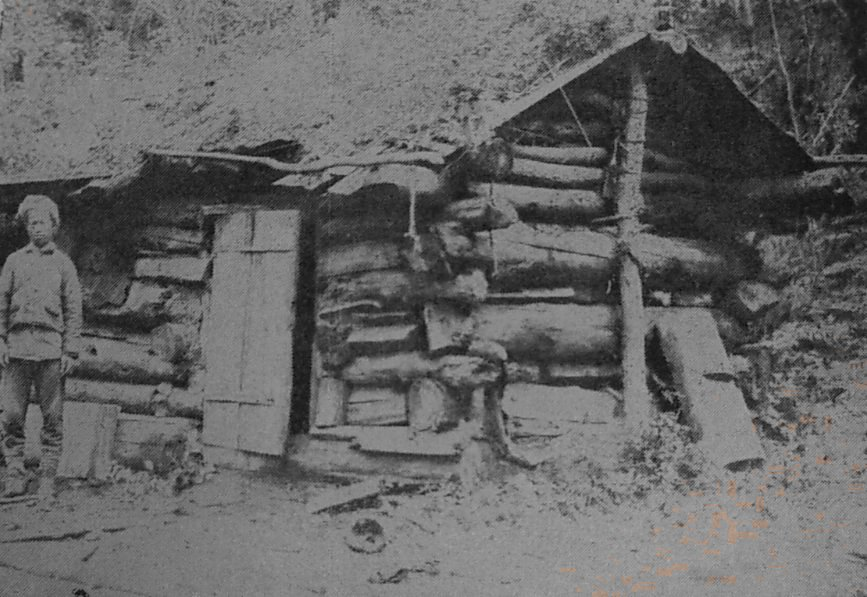 A Chinese hunter's hut in Ussurian Region of Russia